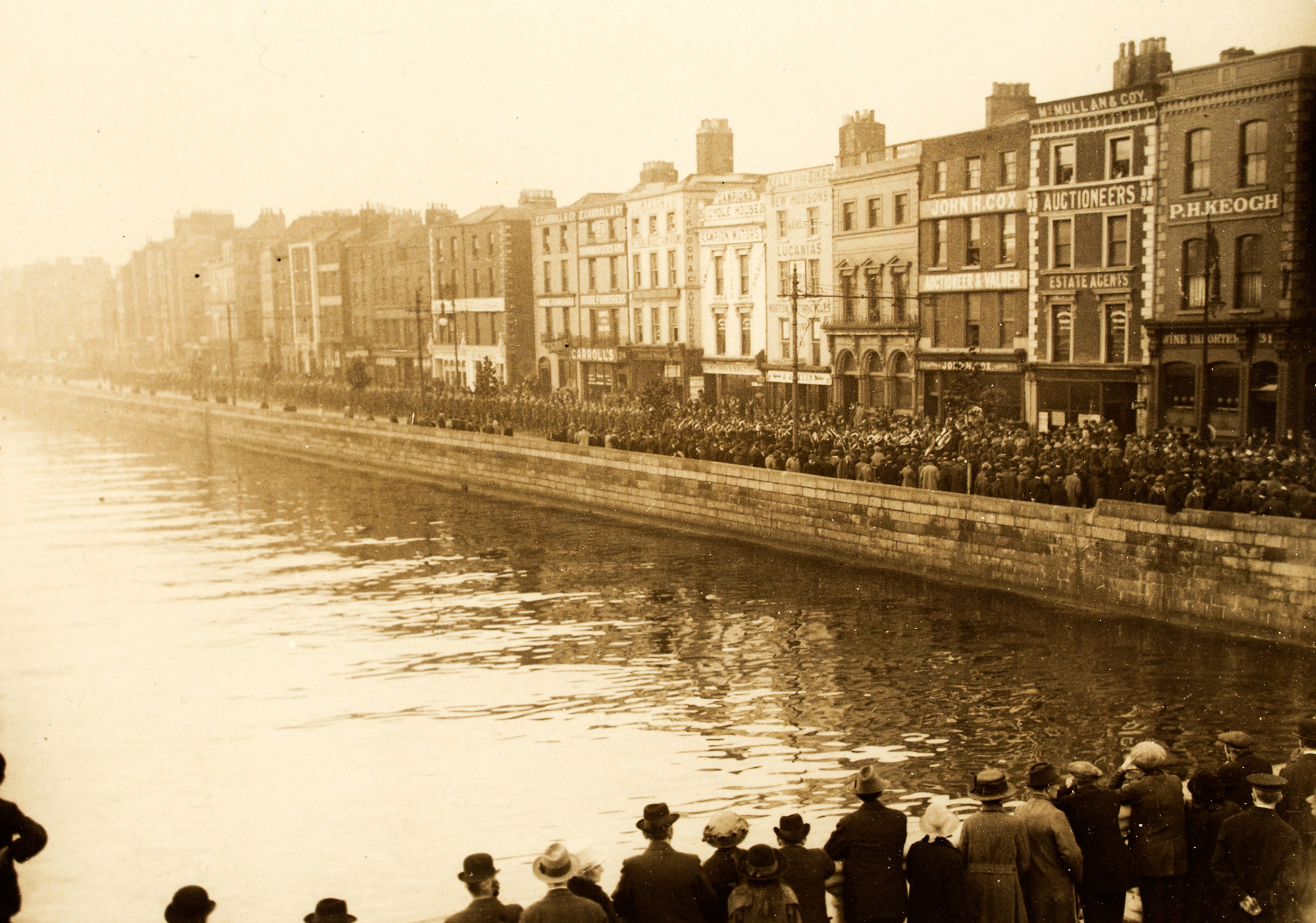 Major E. Smyth and Captain A.P White were killed during a military raid in Drumcondra, Dublin in the early hours of Tuesday, 12 October 1920. Their funeral procession along the quays in Dublin was a huge affair, with their remains in coffins placed on gun carriages and covered with Union flags, and escorted by up to 600 troops. Here's a snippet from the Irish Times published the next day: "Right along the quays the procession marched to the strains of the Dead March in "Saul" and other solemn airs. On arrival at Store street the remains of Major Smyth, accompanied by one portion of the troops, were conveyed to the Great Northern Railway Station at Amiens street, where they were entrained for removal by the three o'clock train to Banbridge, where the concluding stage of the funeral takes place to-day. As the coffin was borne from the gun carriage to the mortuary van the troops gave the customary salute, and the "Last Post" was sounded by the buglers. On the coffin was laid a beautiful wreath from two brother officers of the deceased. The remains of Captain White, accompanied by the remaining troops, were then conveyed to the North Wall, where, after being accorded the usual military salutes, they were placed on board the steamer for England." Date: Thursday, 14 October 1920 NLI Ref.: HOG150